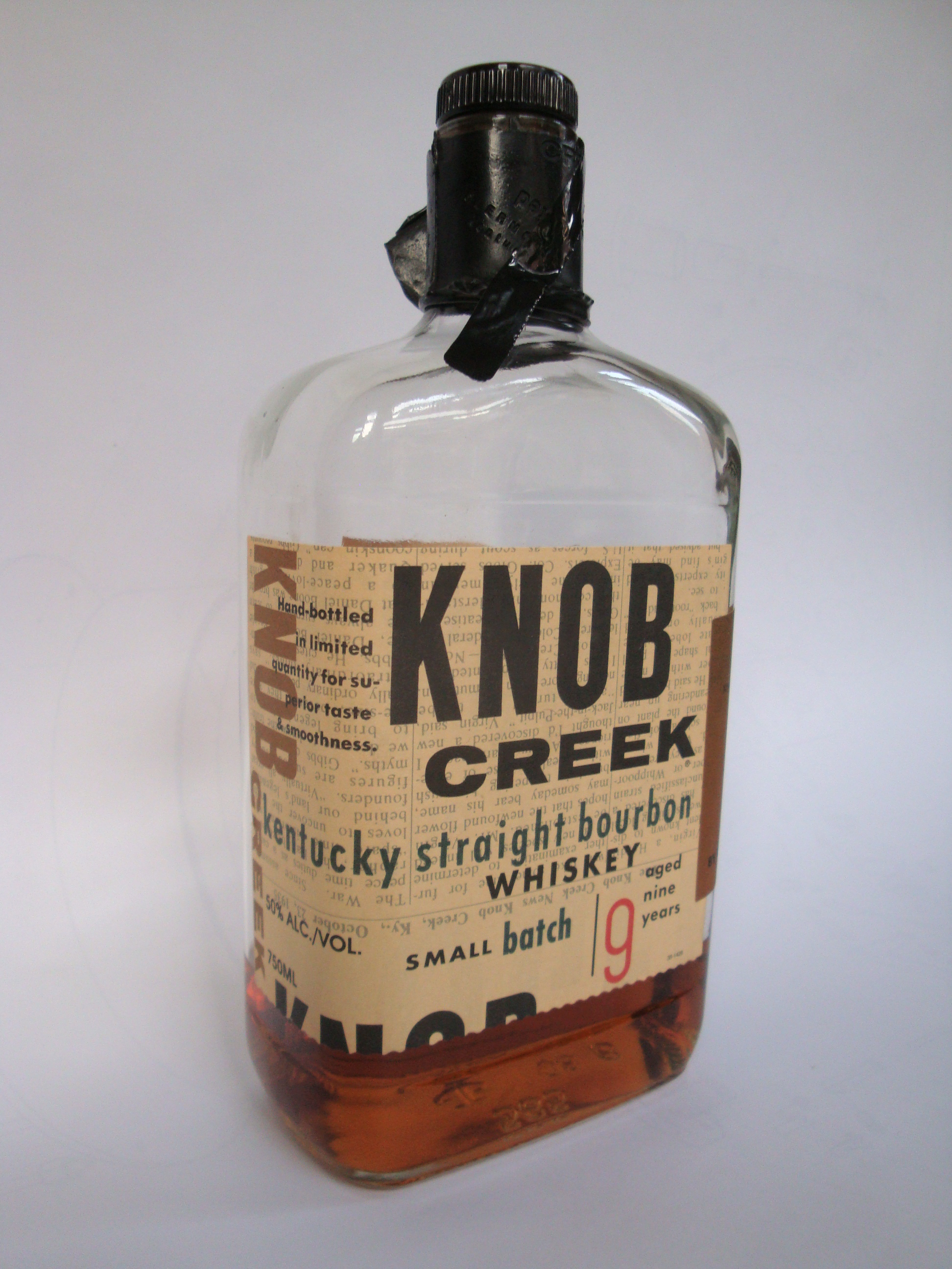 A bottle of Jim Beam small batch bourbon Knob Creek